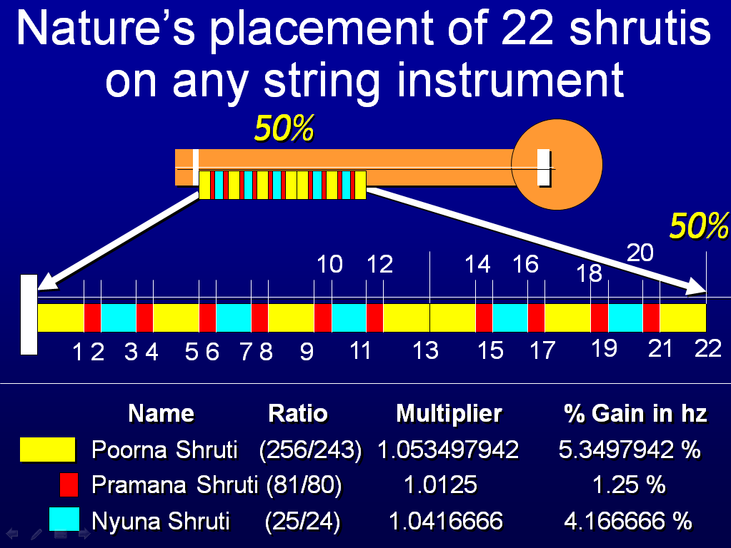 Nature's placement of 22 Shrutis on any string instrument